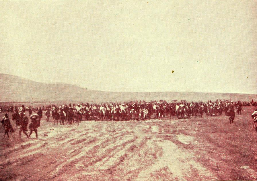 Return of the army of Ras Wolda Giyorgis after the conquest of Kaffa